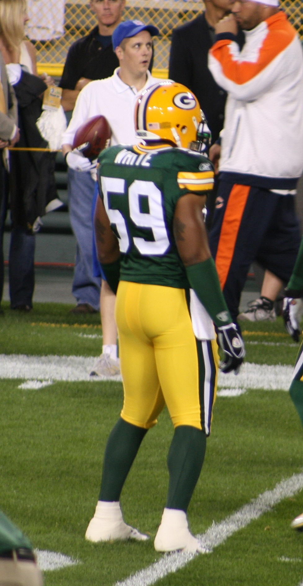 Tracy White during pre-game warm-ups.